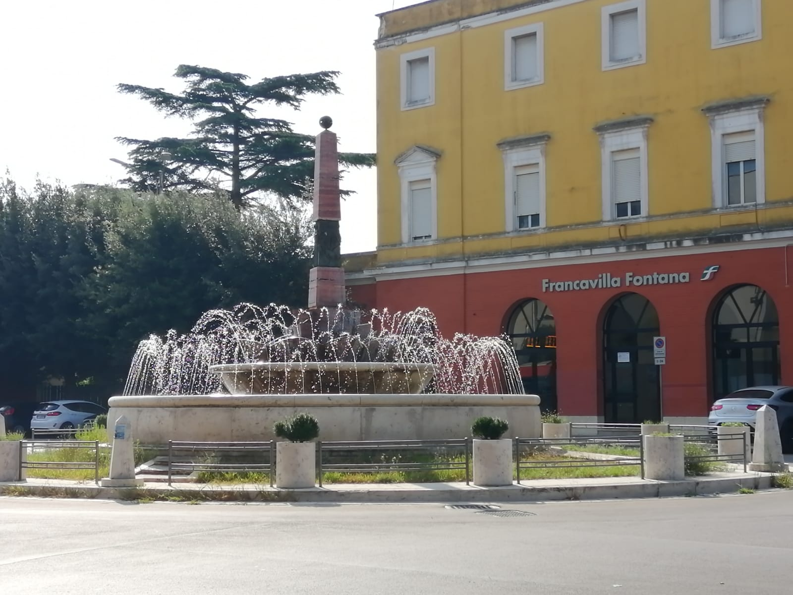 The fountain in front of the train station.